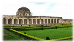 Solah Khamba Mosque